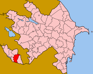 Map of Azerbaijan showing Julfa (Culfa) rayon.